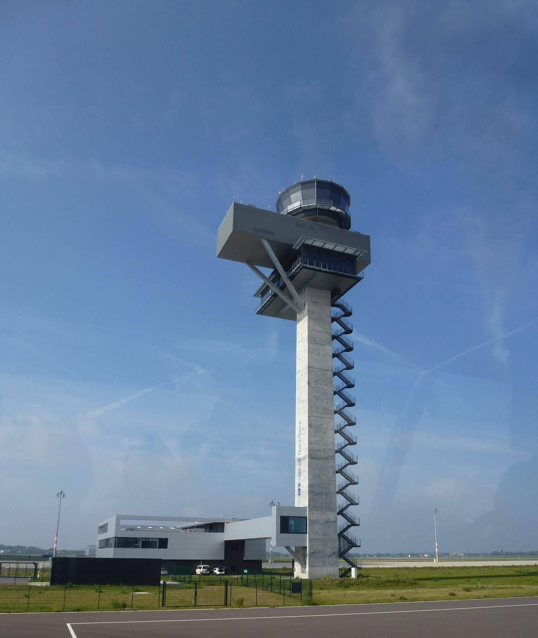 BER Tower